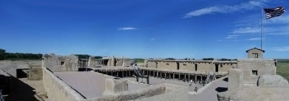 Bent's Old Fort, near La Junta, Colorado, USA. Panorama over the rooftop